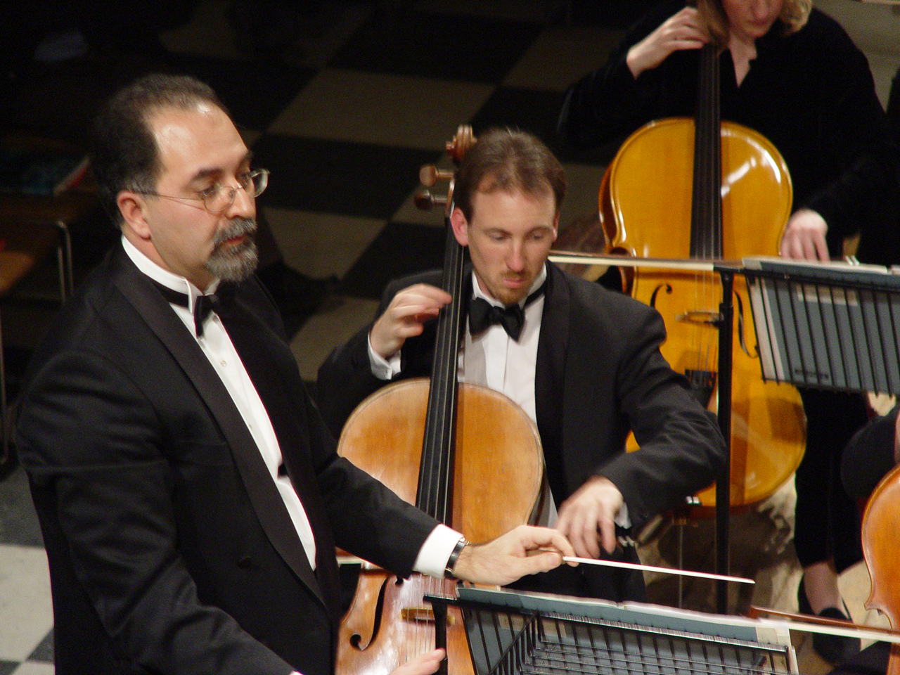 new philharmonic orchestra